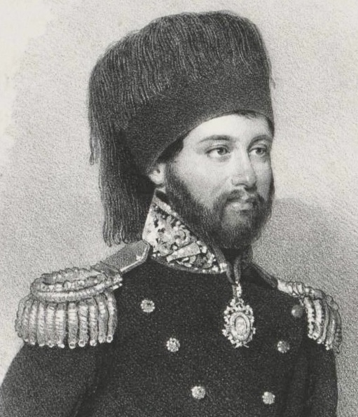 (Bridegroom) Georgian Halil Rifat Pasha.. He is husband of Sultan's daughter.